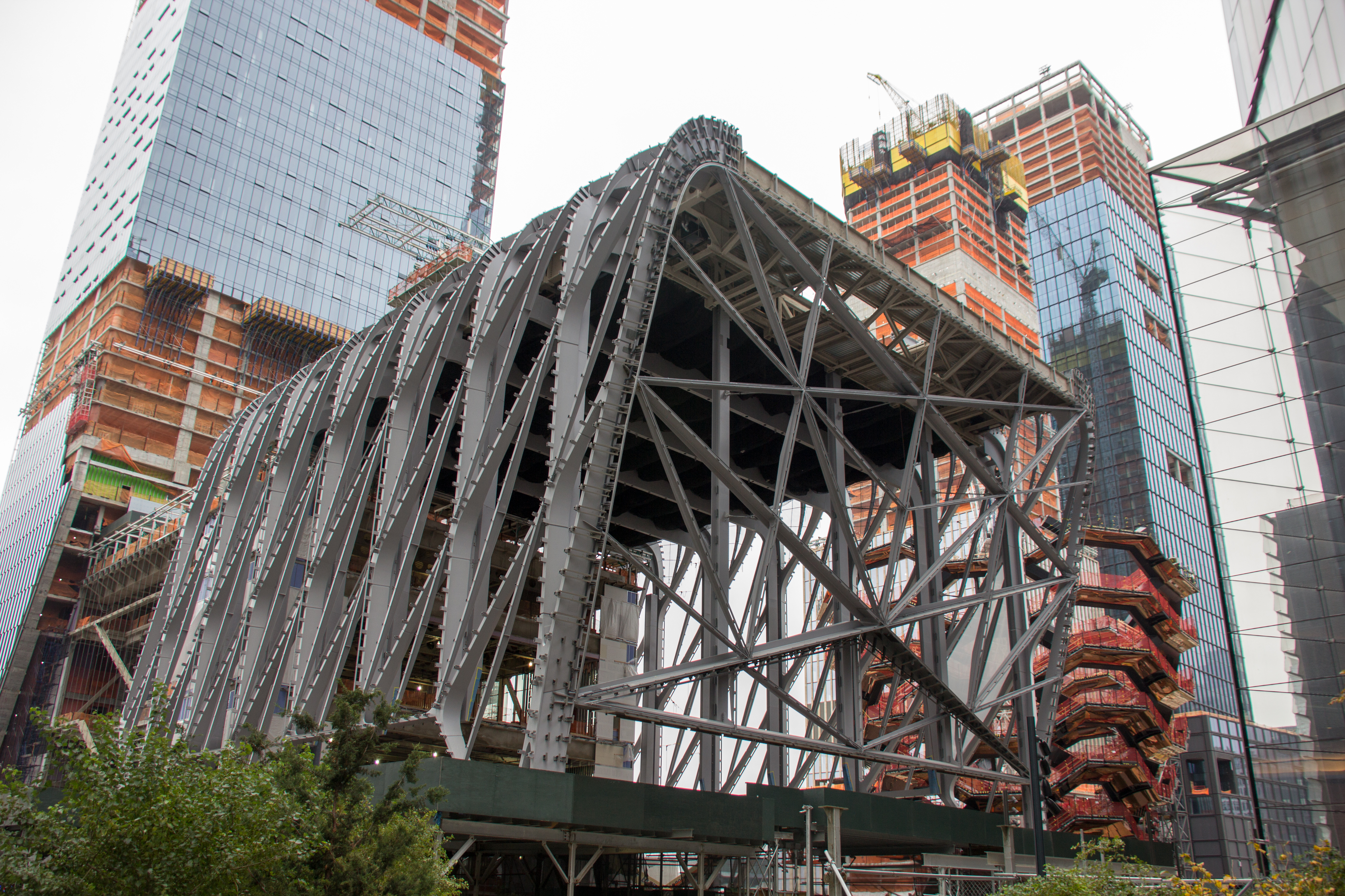 The Vessel, a building in New York City, USA, with many stairs for walking around, designed by Thomas Heatherwick and others, within the huge skyscrapers of Hudson Yards Redevelopment Project and behind The Shed. In the right of the photo 10 Hudson Yards, in the left '15 Hudson Yards' under construction, with a view up to the high rising buildings from former railway 'High Line'. Photo taken in November 2017.